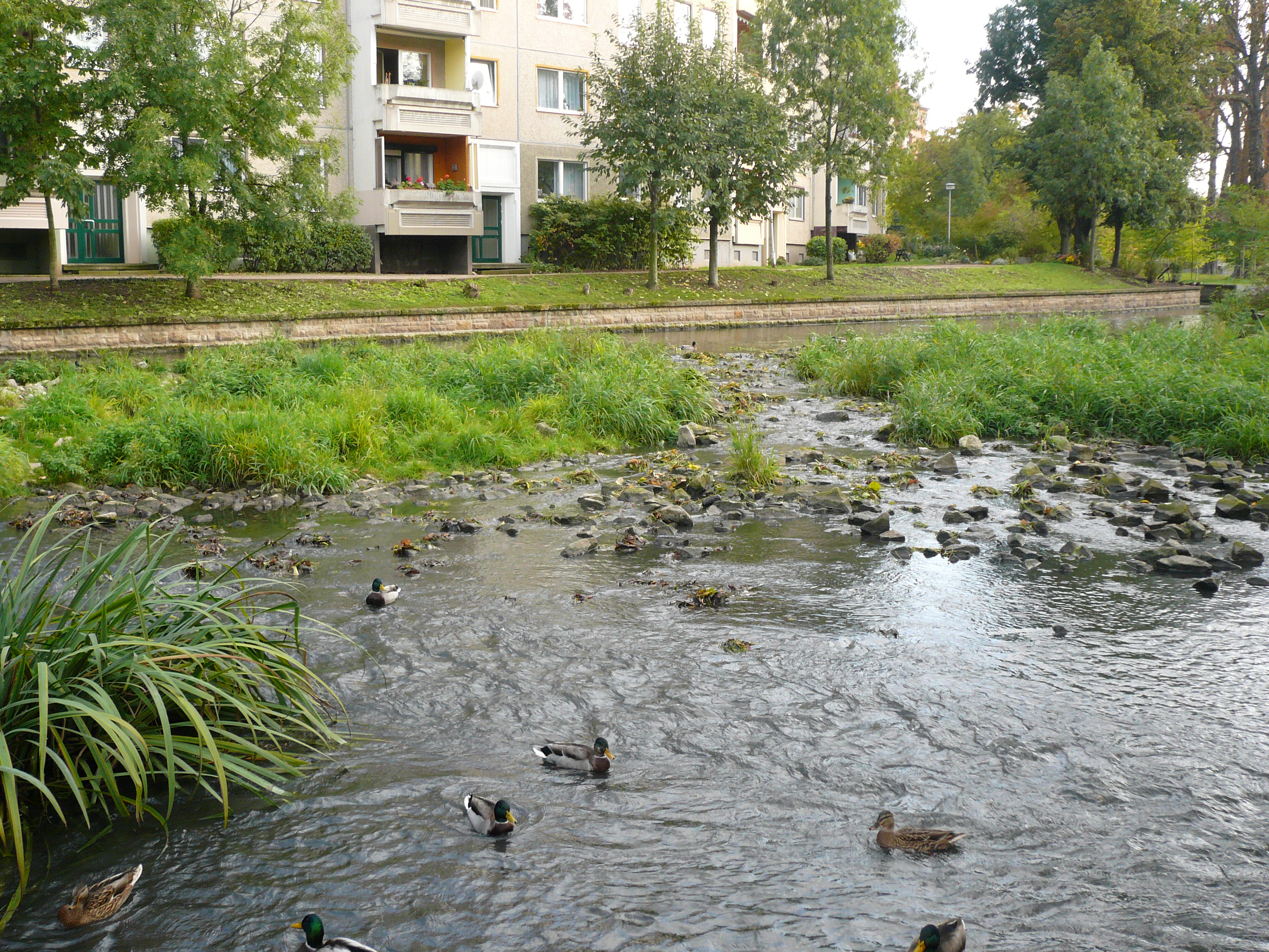 At the borough "Venedig" in Erfurt, Germany.